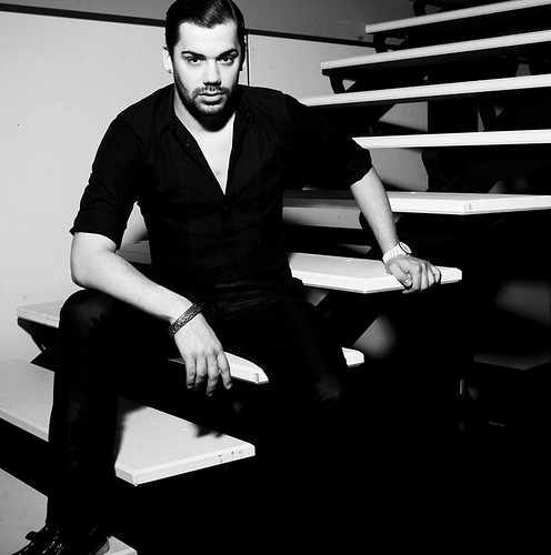 Janice - Fashion Designer